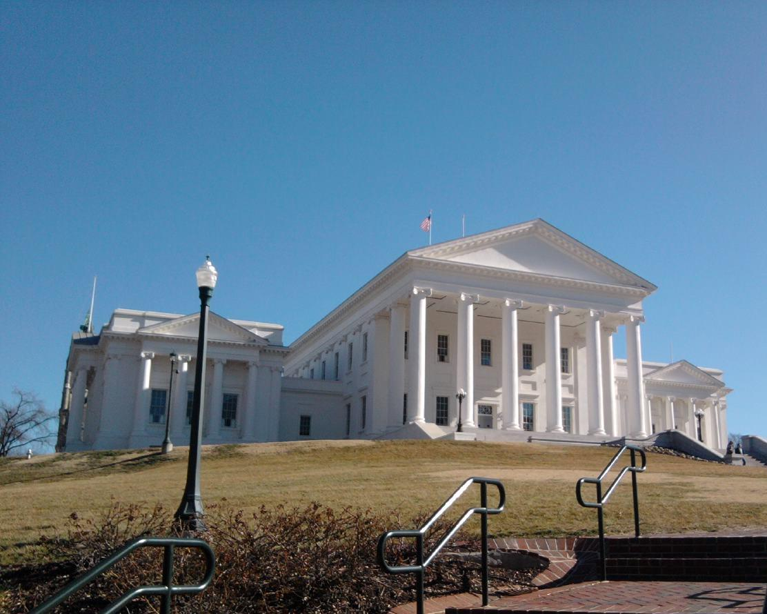 Virginia state capitol in Richmond.